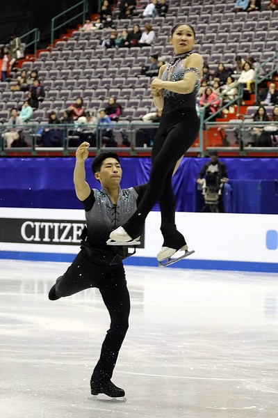 Su Yeon KIM Hyungtae KIM KOR – 8th Place